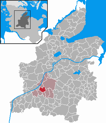 Locator maps of municipalities in Schleswig-Holstein - District Rendsburg-Eckernförde